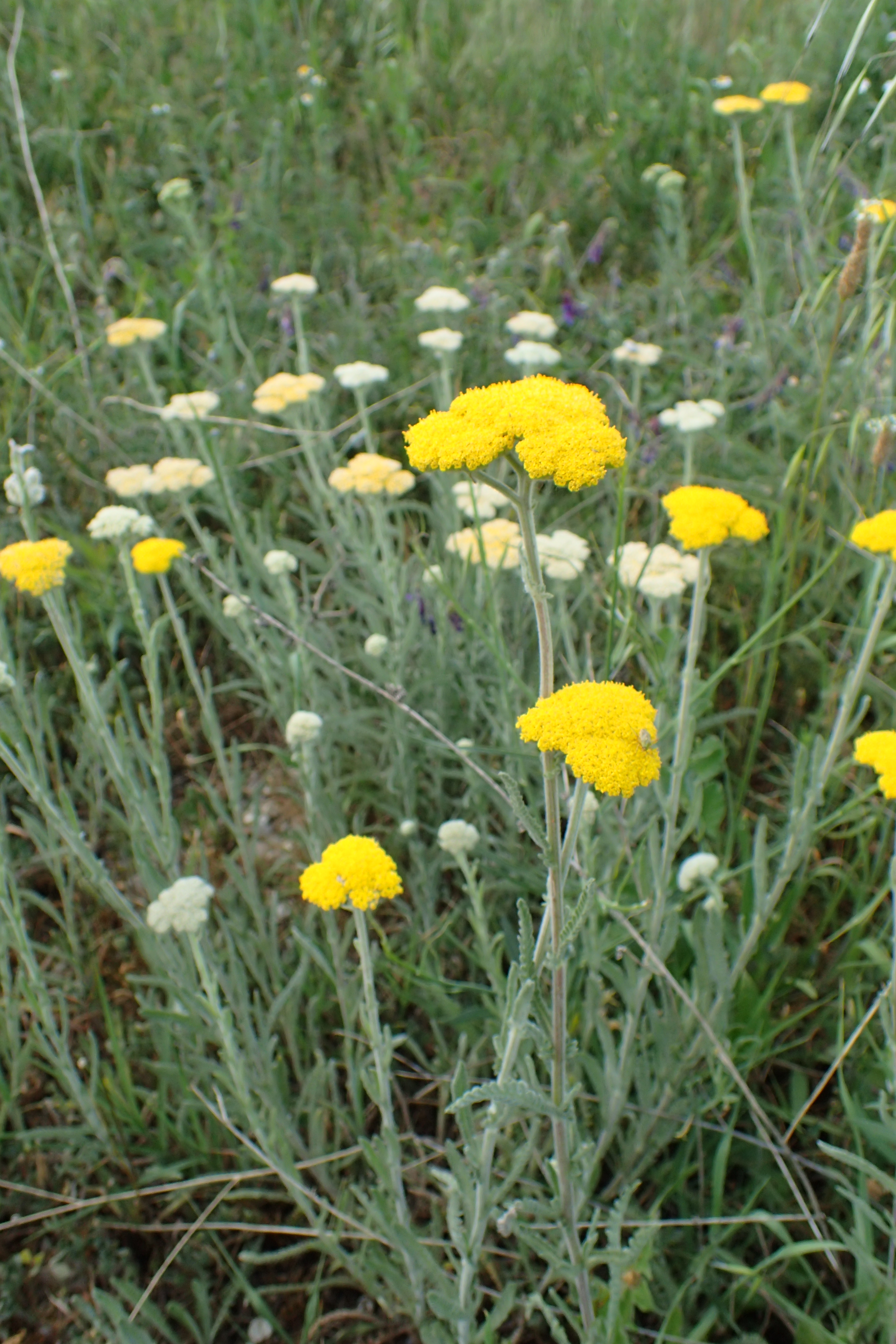 Achillea clypeolata in Blagoevgrad, Bulgaria